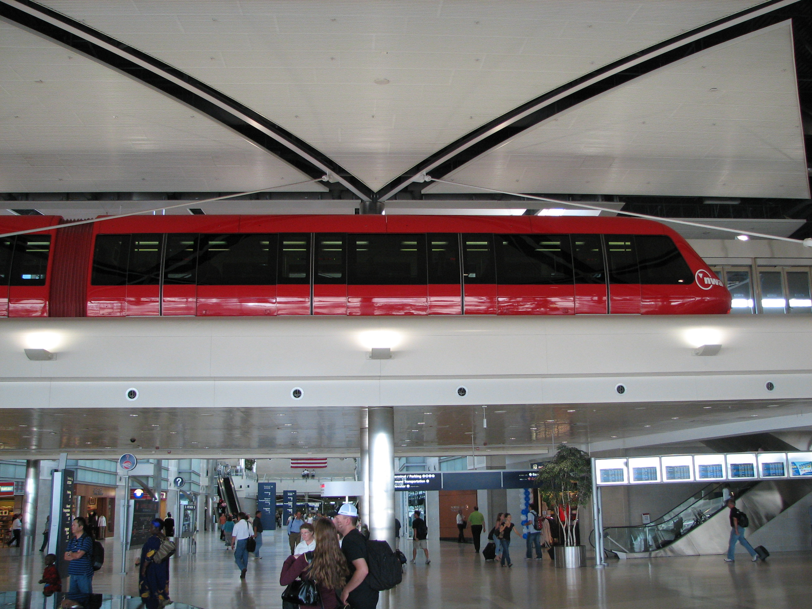 The McNamara Terminal's Express Tram (Detroit Metropolitan Wayne County Airport)